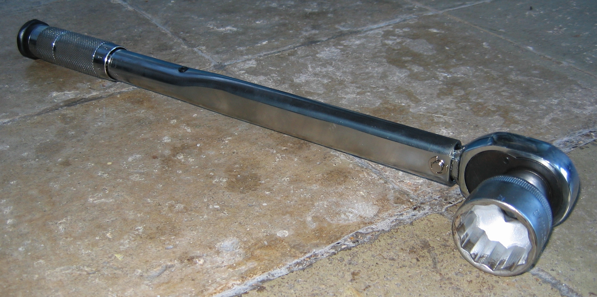 Richmond "Micrometer" torque wrench fitted with 32 mm socket. Adjustment is by twisting the knurled handle. Photo by Heron2 17:14, 18 March 2006 (UTC).